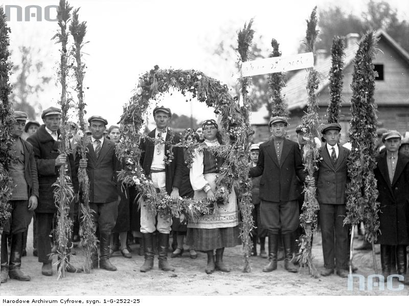 Dożynki in Głębokie, Wilno Voivodeship in Poland 1934